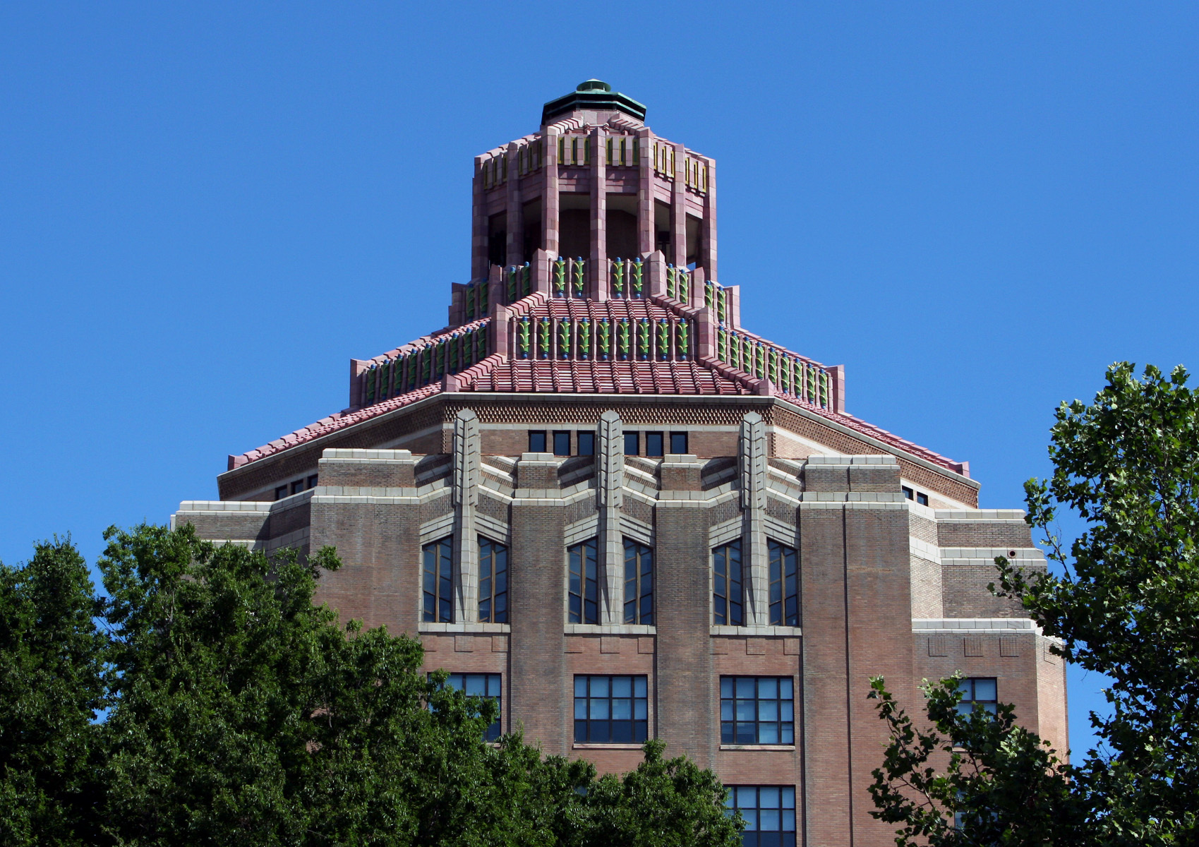 View from the Downtown Market